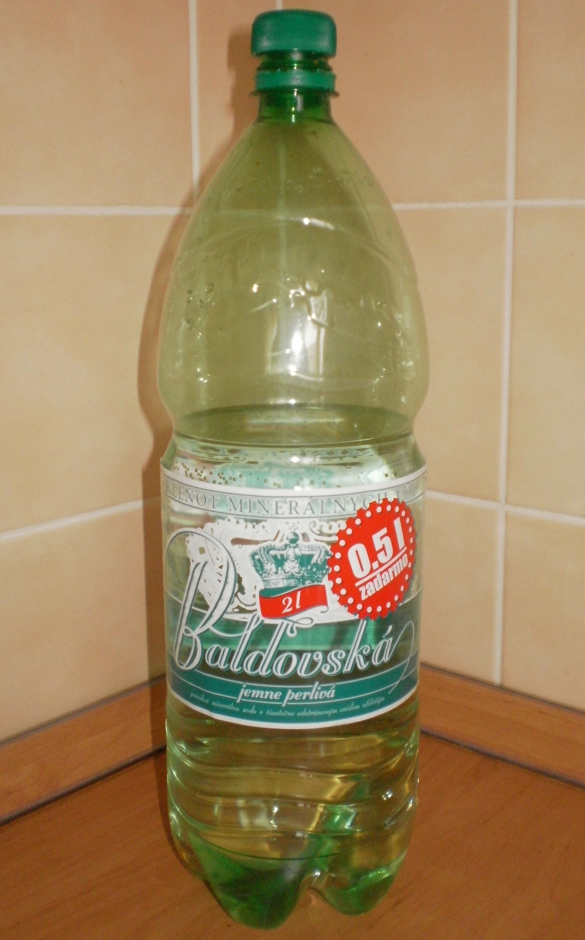 Baldovská - Mineral water